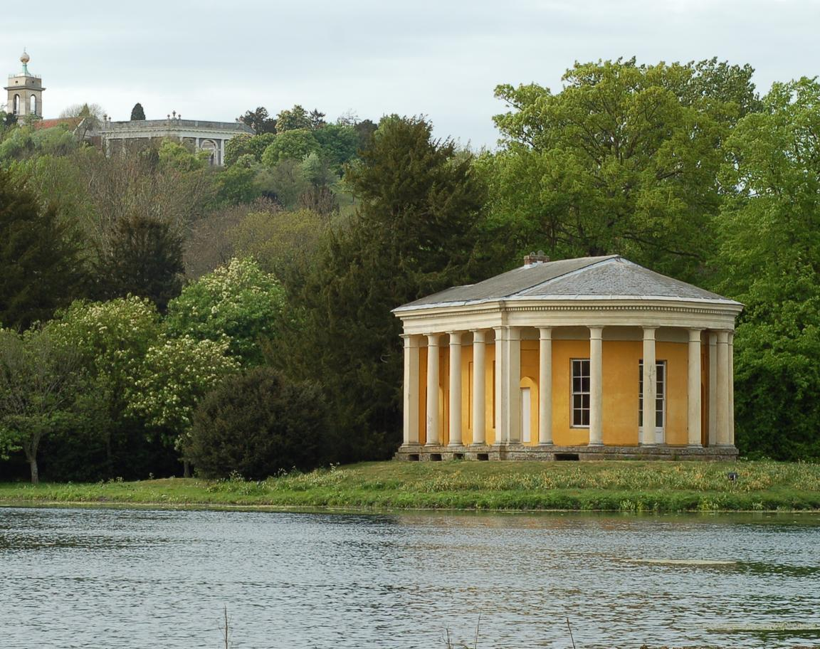 photos from around the west wycombe park, the place Sense & Sensibility was filmed.